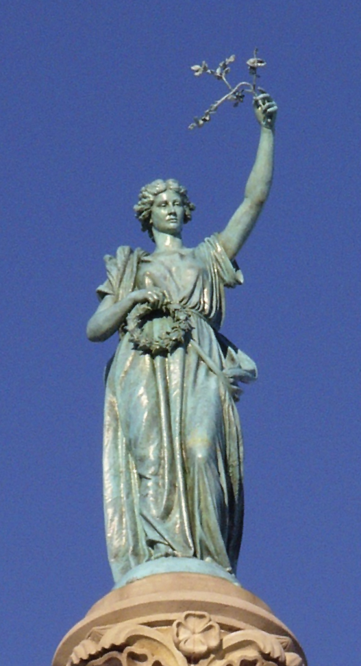 Soldier's and Sailor's Monument East Rock New Haven Statue Detail